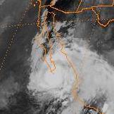 Hurricane Henriette making landfall in Baja California on 1995-09-04